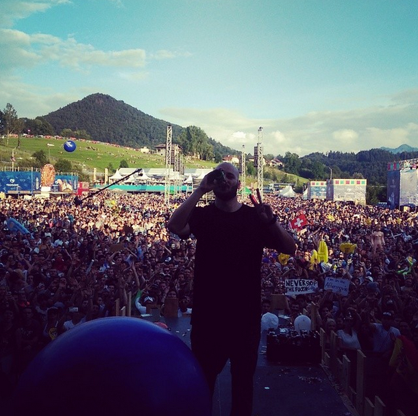 Crookers in Austria performing on stage.